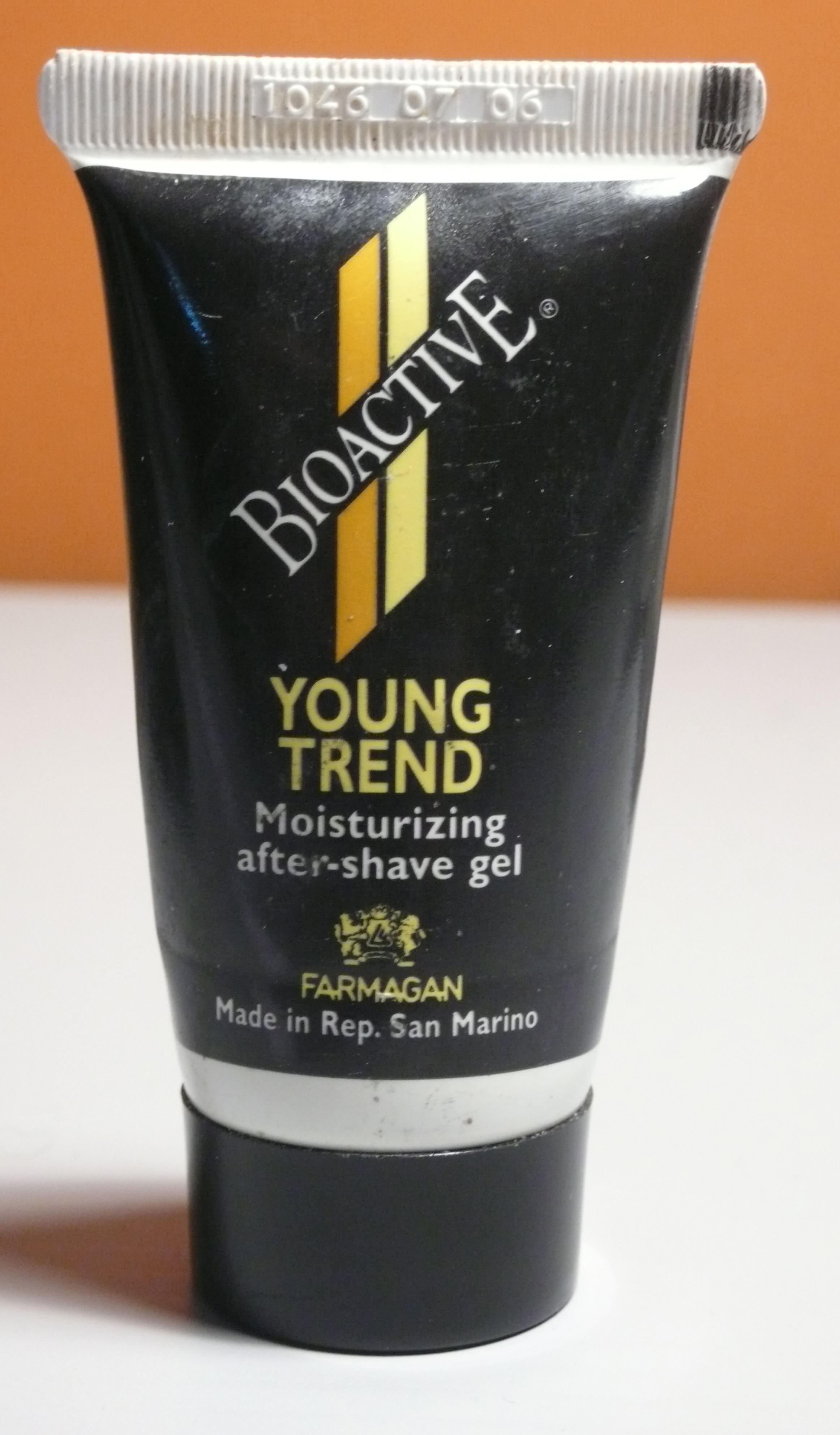 A rare example of a product made in the small Republic of San Marino (year 2000 or 2001).